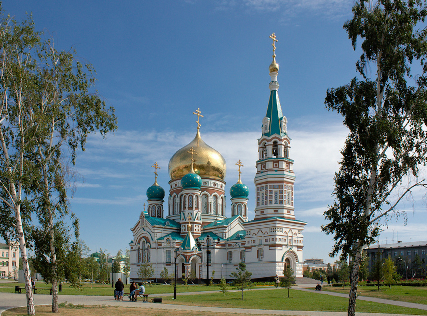 The Dormition of the Theotokos Church in the city of Omsk, Russia.